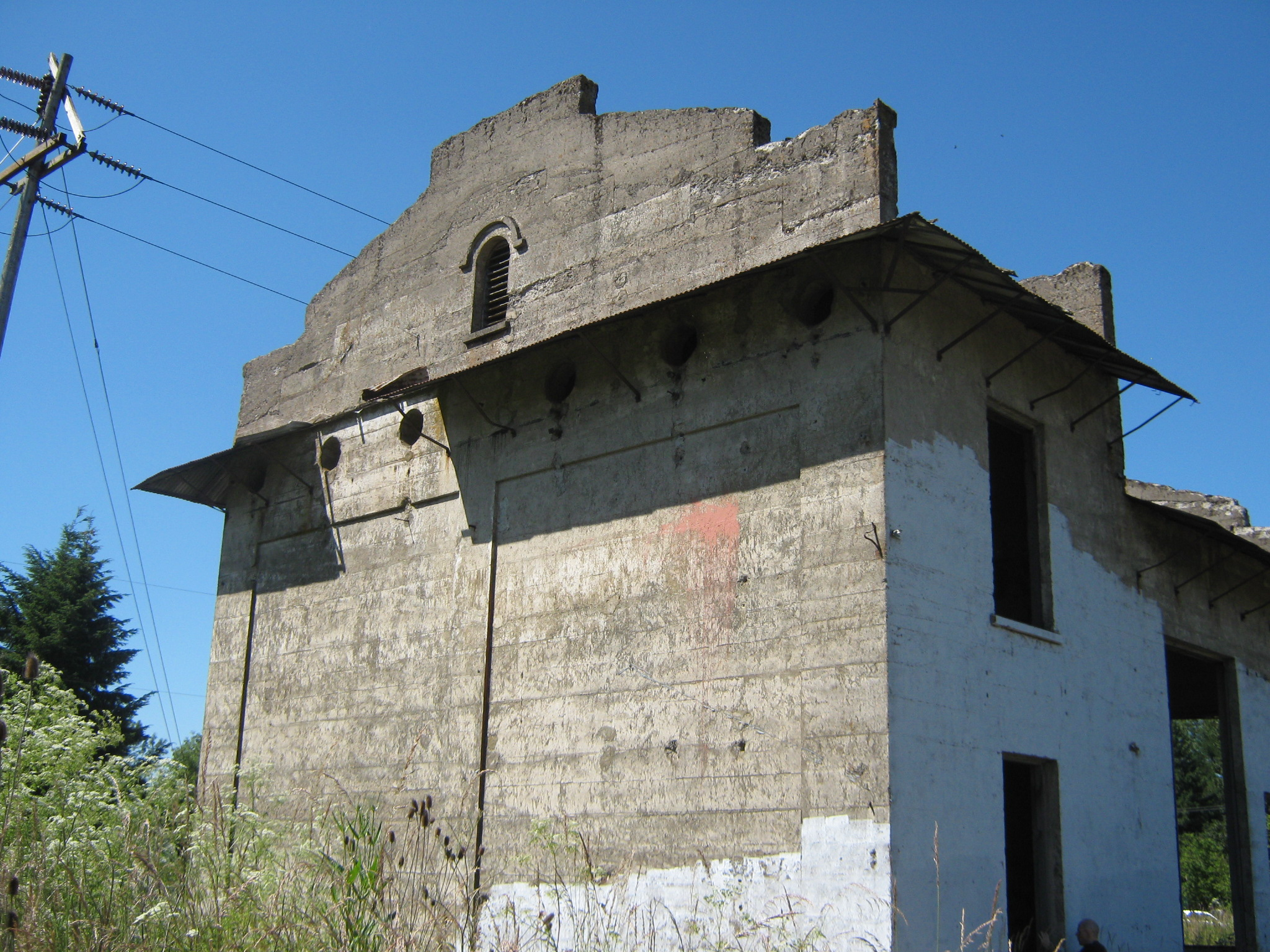 Former Oregon Electric Railway electric substation and depot in Waconda, Oregon